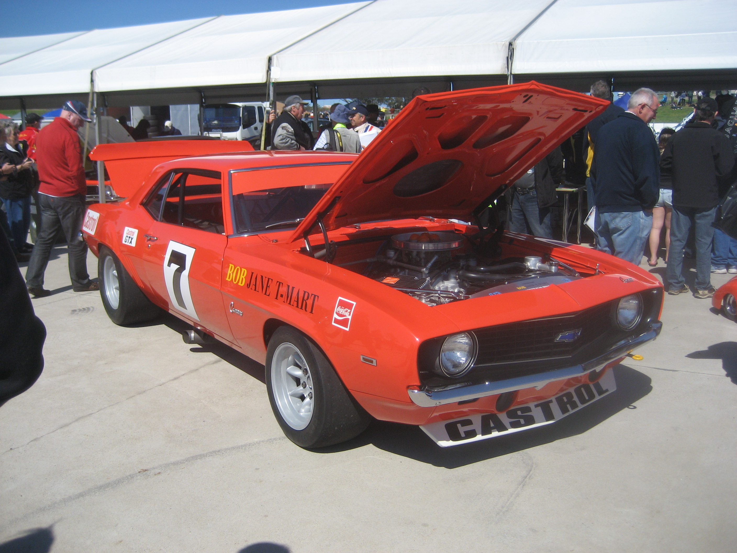 In 1969, the Camaro got all new sheet metal, except the hood and trunk lid, but the drivetrain stayed much the same, the grille got a distinctive V shape and the headlights were inset. It looked lower, wider and more aggressive. Bob Janes race car was an original COPO 9560 430bhp aluminium ZL-1 427 cu in (only 69 made), making over 600hp Bob competed in the Australian Touring Car Championship in this car winning the championship in 1971 and 72